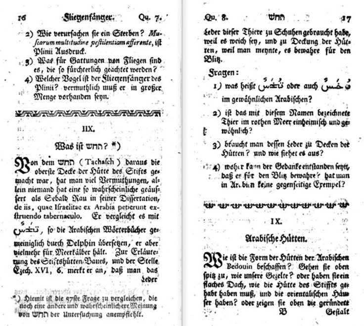 Double page from the book with the publication of the questions which were given to the participants of the Arabian Expedition of Carsten Niebuhr and colleagues